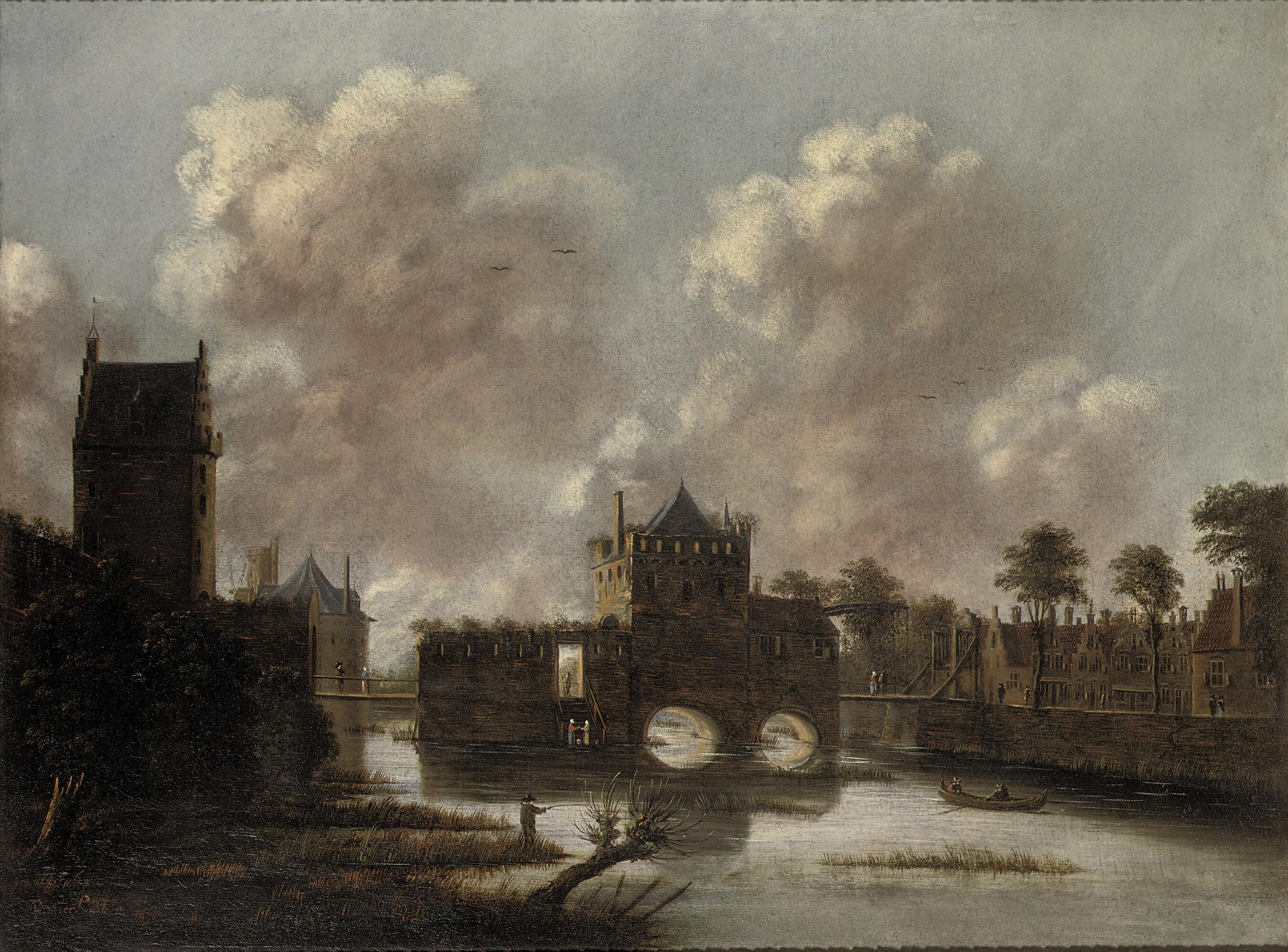 View of the Wittevrouwenpoort, Utrecht; signed 'Jf :meerhout' (Jf linked, lower left); medium oil on canvas; dimensions 65.3 x 48.5 cm